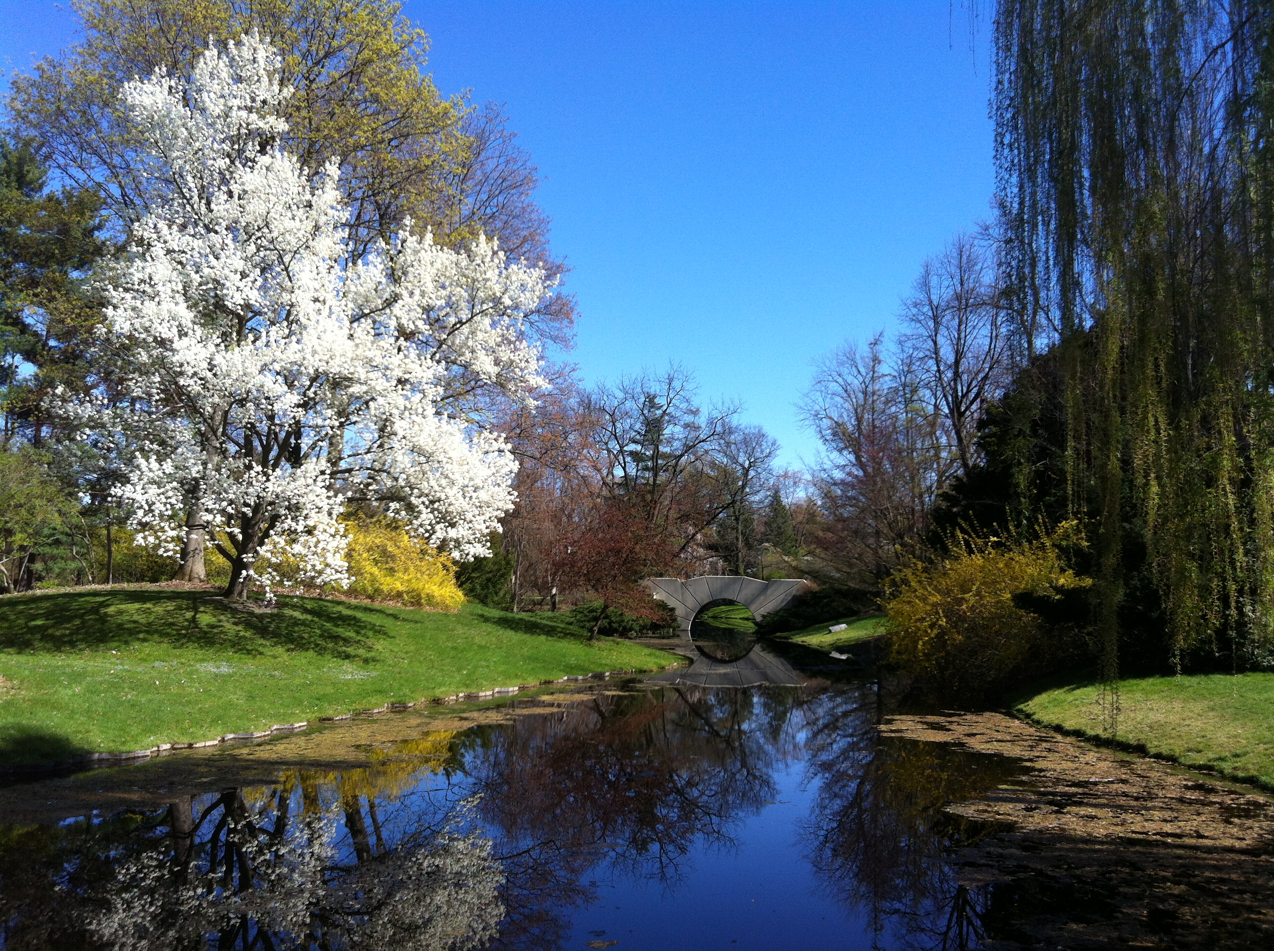 This is a picture of the trees in bloom during the spring at Dow Gardens in Midland, Michigan.